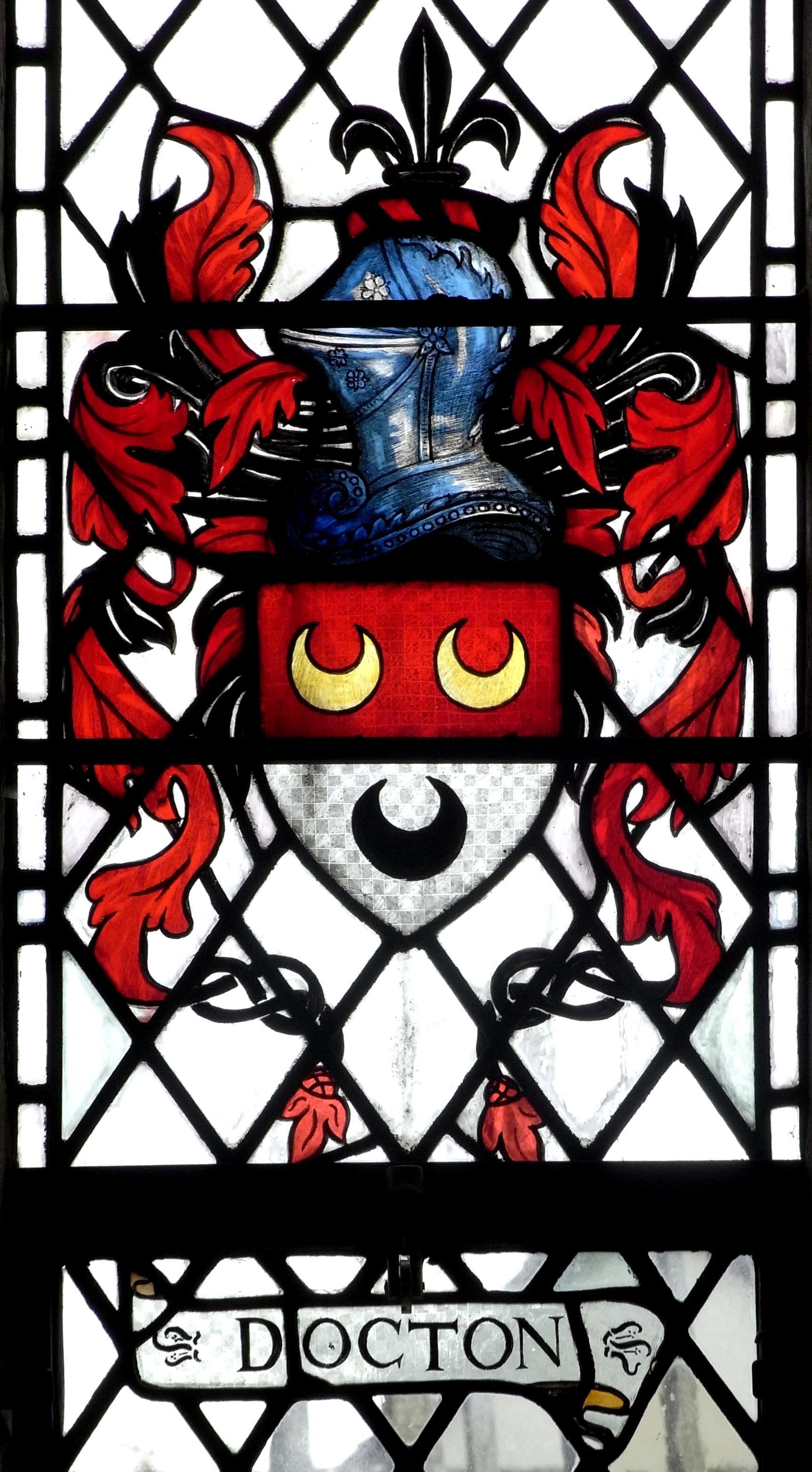 Arms of Docton of Docton, in the parish of Hartland, Devon: Per fess gules and argent, two crescents in chief or another in base sable (*Vivian, Lt.Col. J.L., (Ed.) The Visitation of the County of Devon: Comprising the Heralds' Visitations of 1531, 1564 & 1620, Exeter, 1895, p.286). Crest: A fleur-de-lys sable. 1933 stained glass window in Hartland Church, by Townshend and Howson.